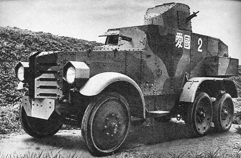 A Type 92 Chiyoda Armoured Car of the Imperial Japanese Army, 1930s